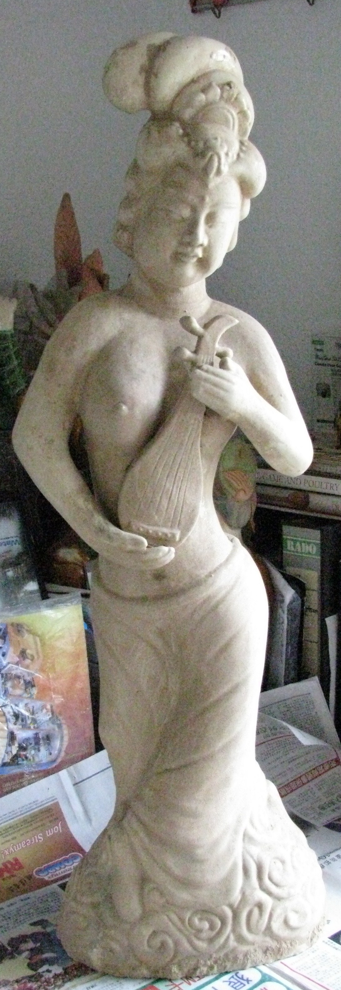 Statuette of Yang Guifei, consort of Emperor Xuanzong of the Tang Dynasty, holding a mandolin